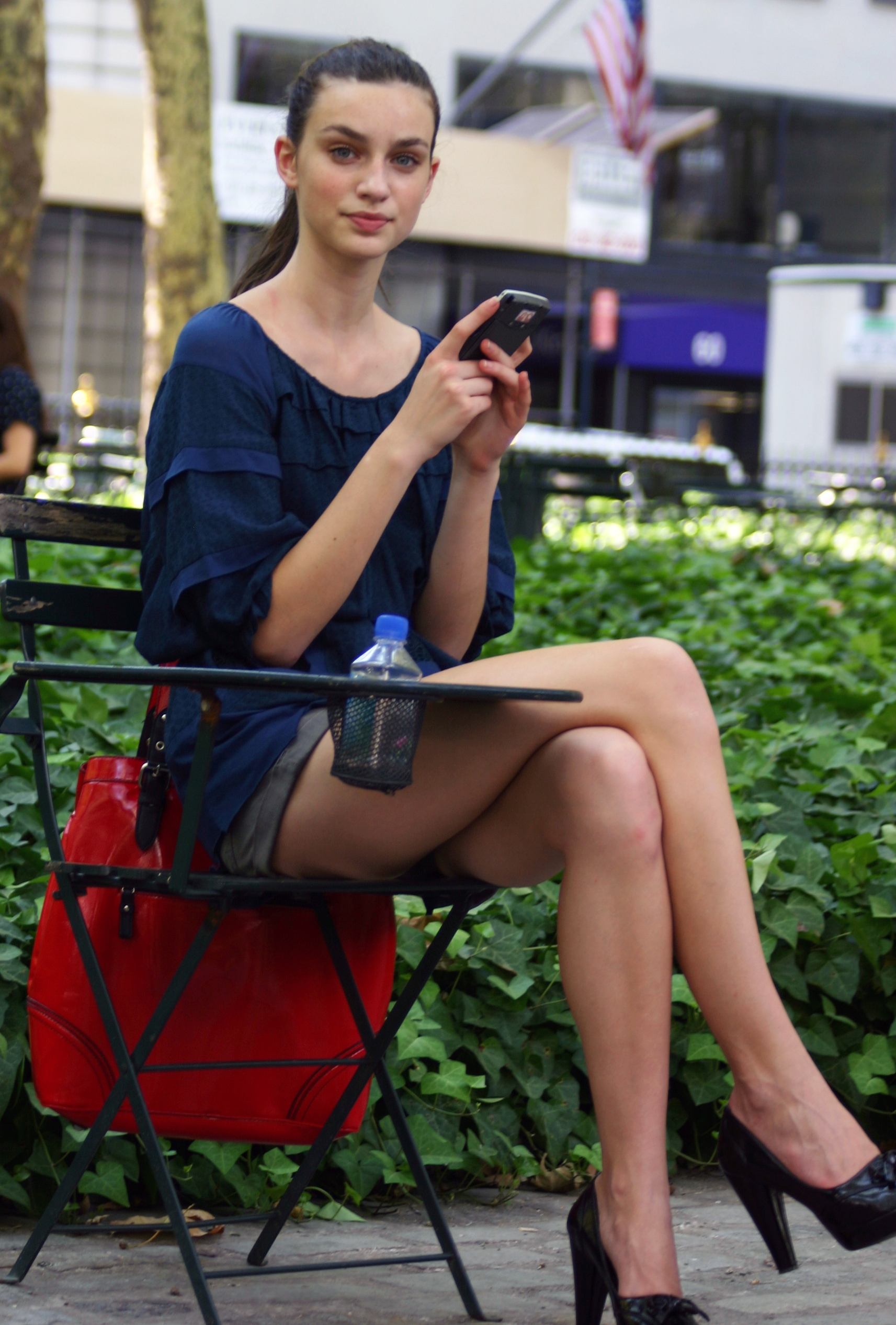 Supermodel Monique Grotto Olsen on her cellphone in Bryant Park during Mercedes-Benz Fashion Week, September 9, 2007.